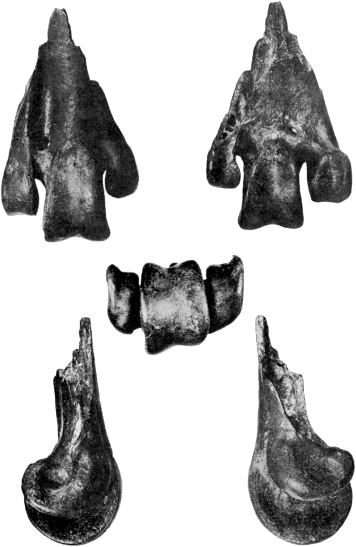 The holotype of the terror bird Titanis.